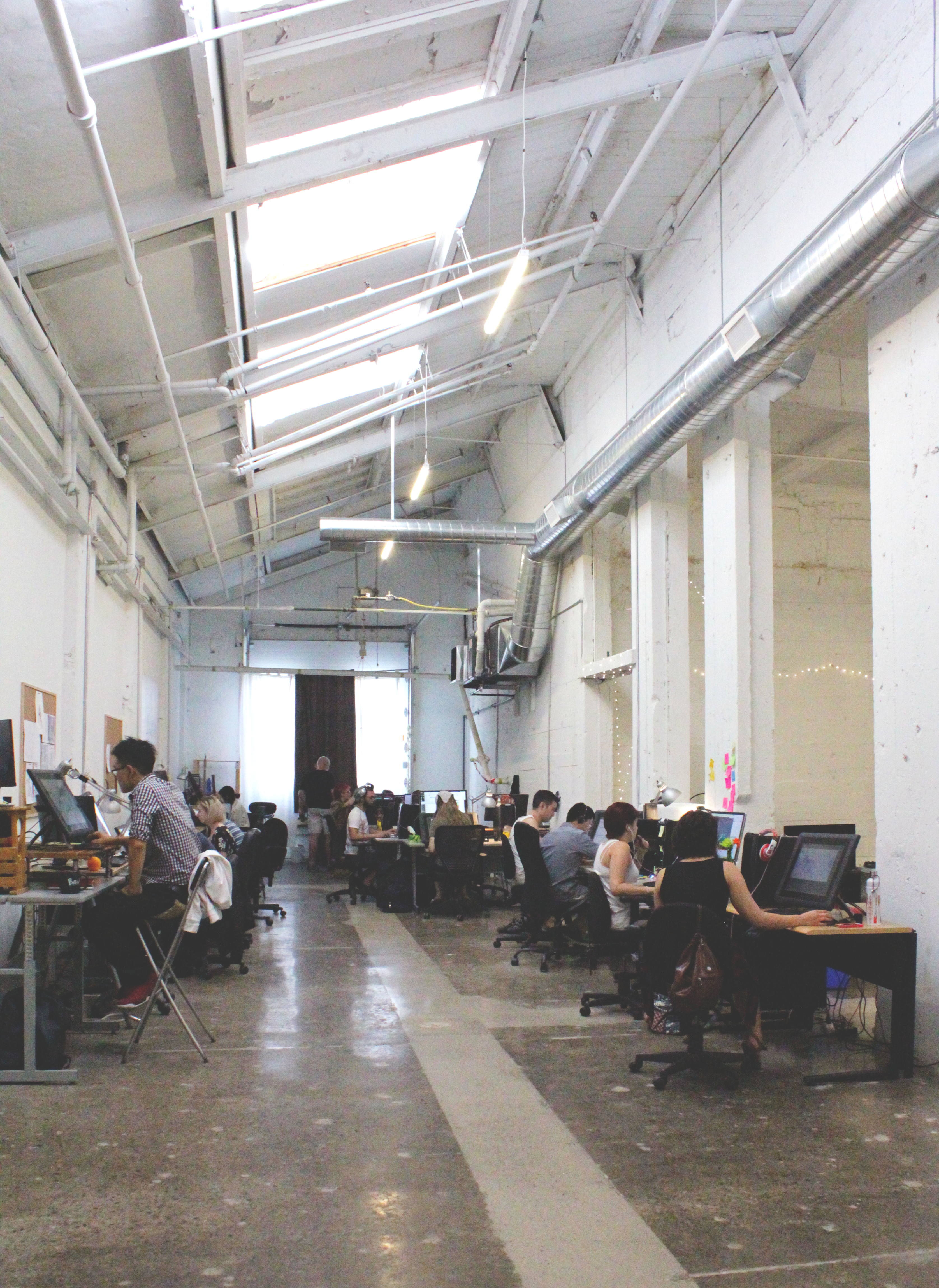 The design area at Yowza! Animation